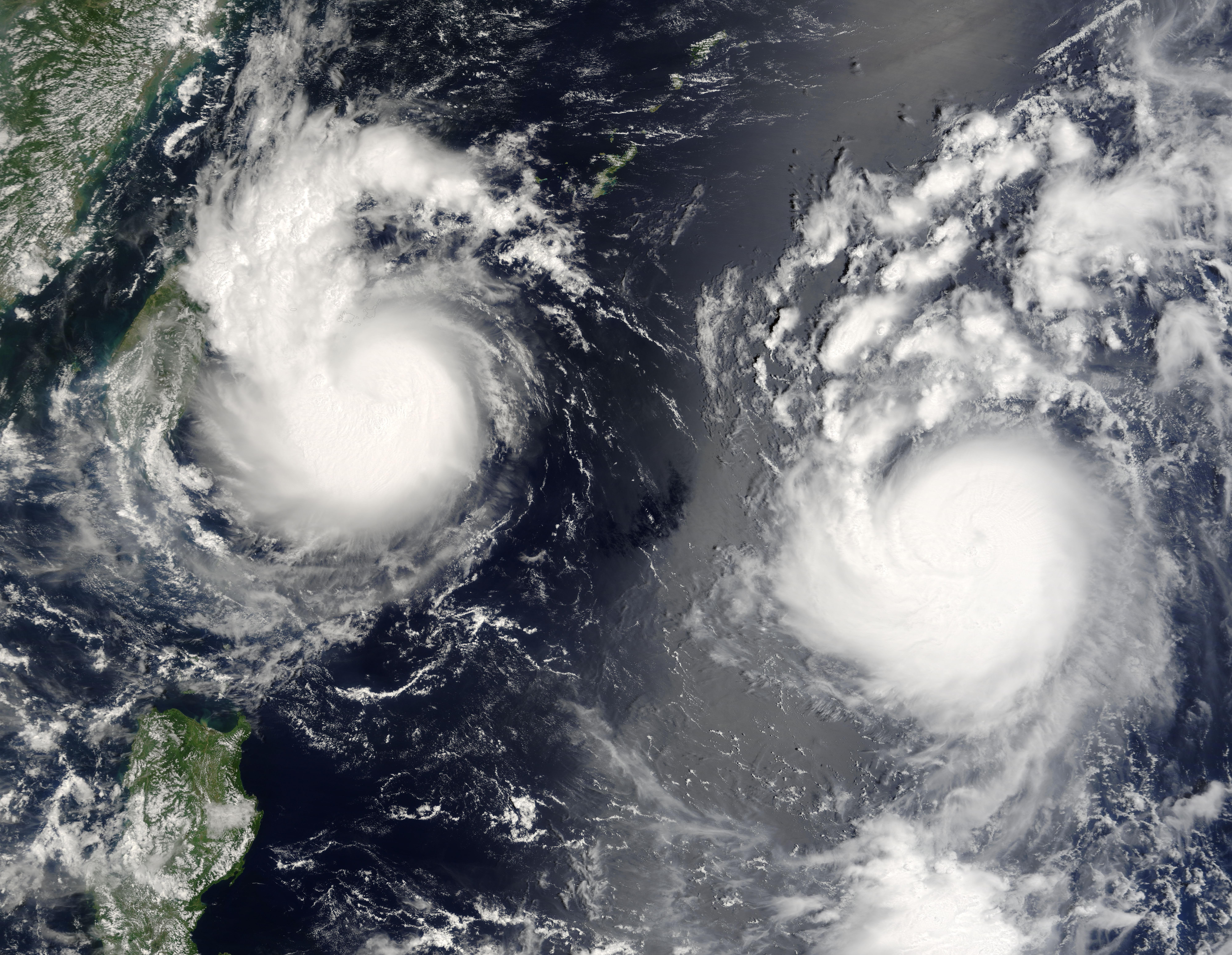 Typhoon Saomai formed in the western Pacific on August 4, 2006, as a tropical depression. Within a day, it had become organized enough to be classified as a tropical storm, and continued to grow, becoming a Category 1 typhoon a day later. Just as Saomai crossed the threshold to typhoon status, a tropical depression formed in the same general area, reaching storm status on August 7, at which point it was named Bopha. As of August 9, Bopha and Saomai were both heading roughly west, with Bopha projected to pass directly over Taiwan, while Saomai was projected to pass north of the island before making landfall on the Asian mainland. This photo-like image was acquired by the Moderate Resolution Imaging Spectroradiometer (MODIS) on the Terra satellite on August 9, 2006, at 10:05 a.m. local time (02:05 UTC). Bopha had developed a strong cyclonic shape, and although the storm system does not have a well-developed eye, the “boiling” clouds around the center suggest thunderstorm activity. Typhoon Saomai appears similar in size to Bopha, but it was a much more powerful storm. At the time of this image, Bopha had sustained peak winds of roughly 82 kilometers per hour (52 miles per hour), while Typhoon Saomai had sustained winds of around 140 km/hr (85 mph), according to the University of Hawaii’s Tropical Storm Information Center. Tropical Storm Maria, which was in the picture with Bopha and Saomai on August 7, had moved farther north as of August 9, when MODIS captured this image. The high-resolution image provided above is provided at the full MODIS spatial resolution (level of detail) of 250 meters per pixel. The MODIS Rapid Response System provides this image at additional resolutions.